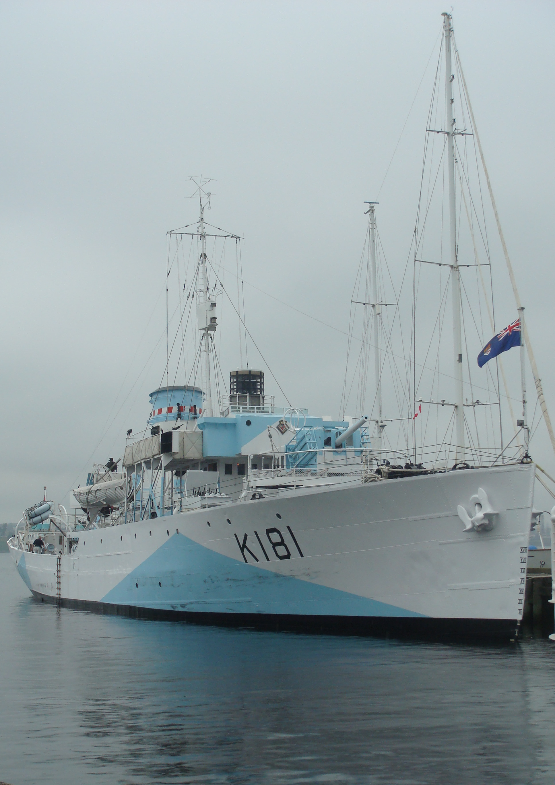 HMCS Sackville